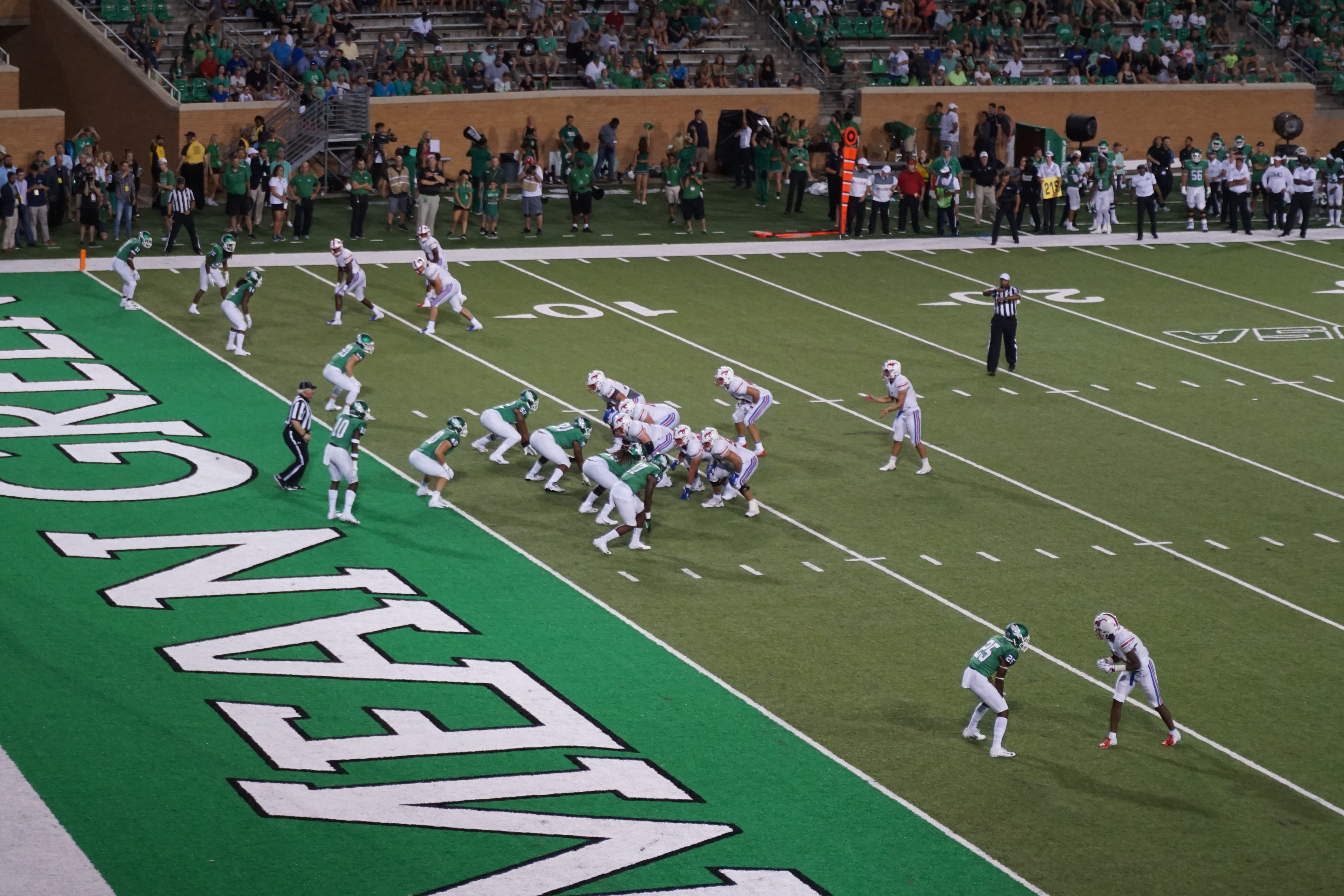 Southern Methodist on offense during the Southern Methodist Mustangs vs. North Texas Mean Green football game at Apogee Stadium in Denton, Texas (United States). North Texas won 46–23.